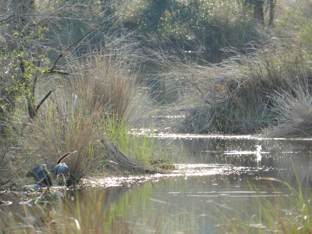 Male drying feathers near Charleston, SC